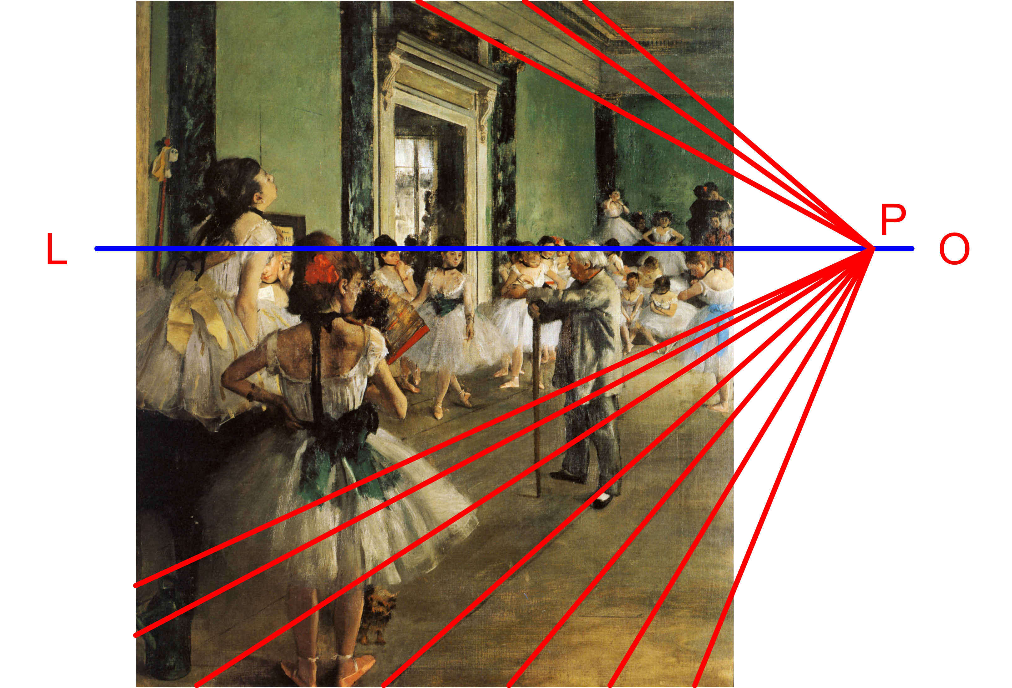 Degas: La classe de danse with perspective lines